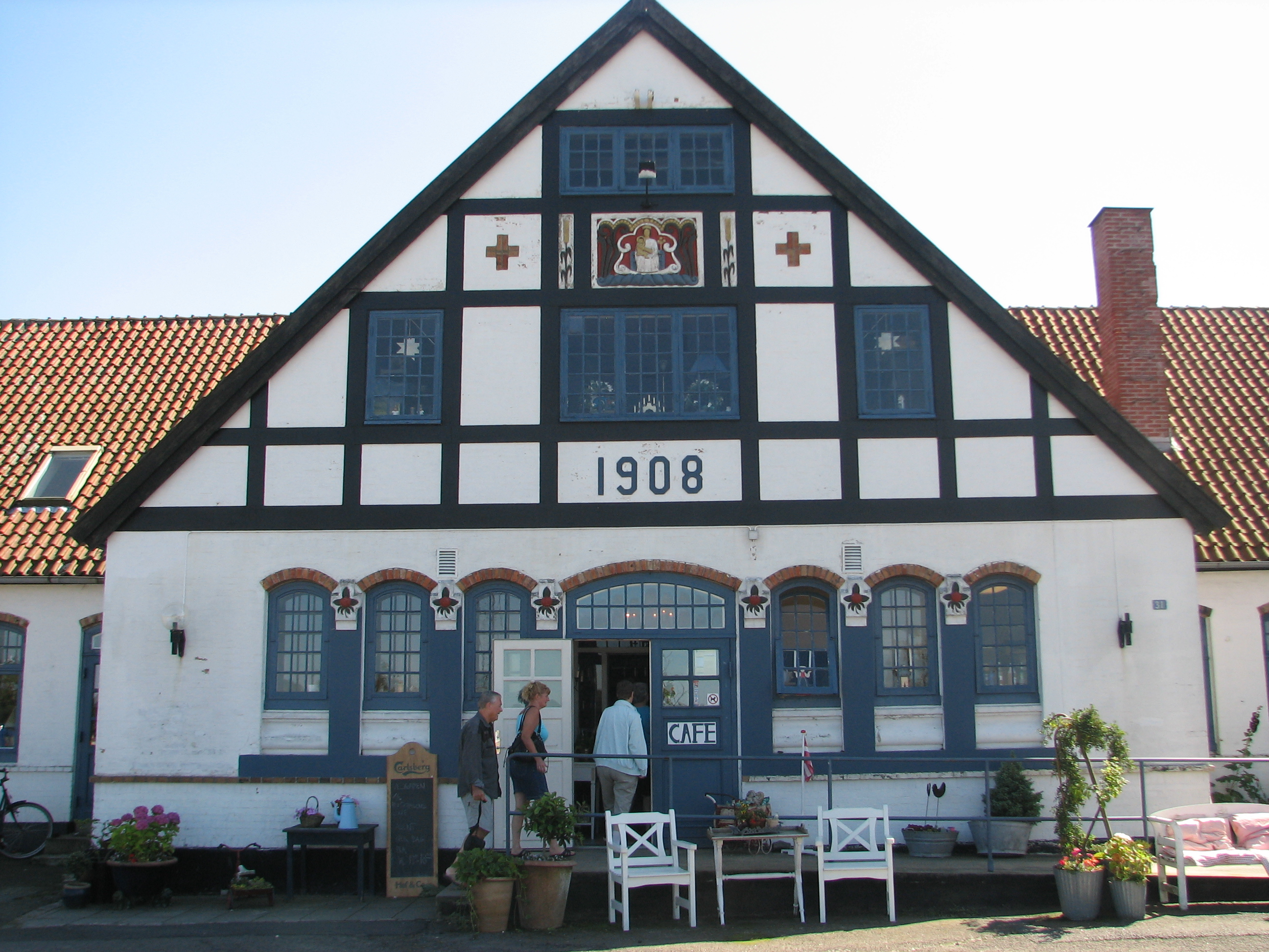 Frue Petersens Café, Almindingensvej 31 , 3751 Østermarie, the early church school of 1908, by architect Mathias Bidstrup. Watch for the stone of the Holy Mary.